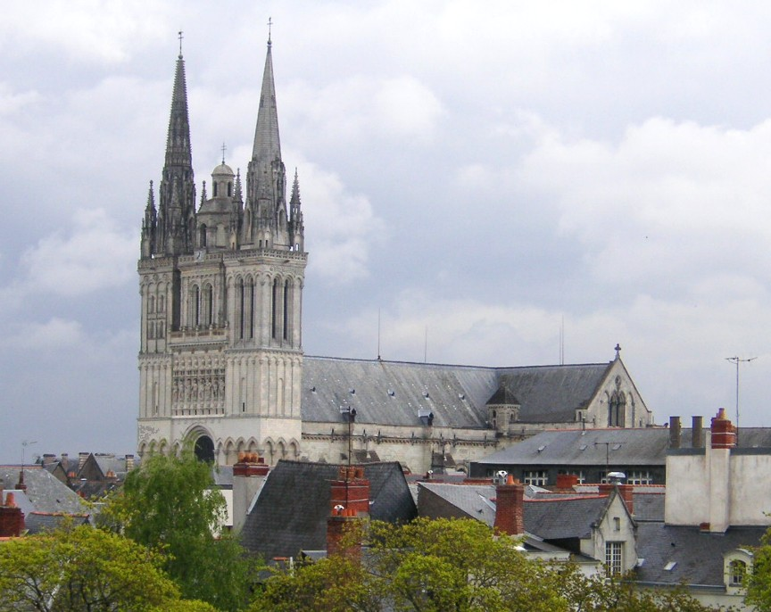 France, Angers Cathedral. an aisless, cruciform building with early Gothic facade, twin spires superb early Gothic portal retaining some colour.